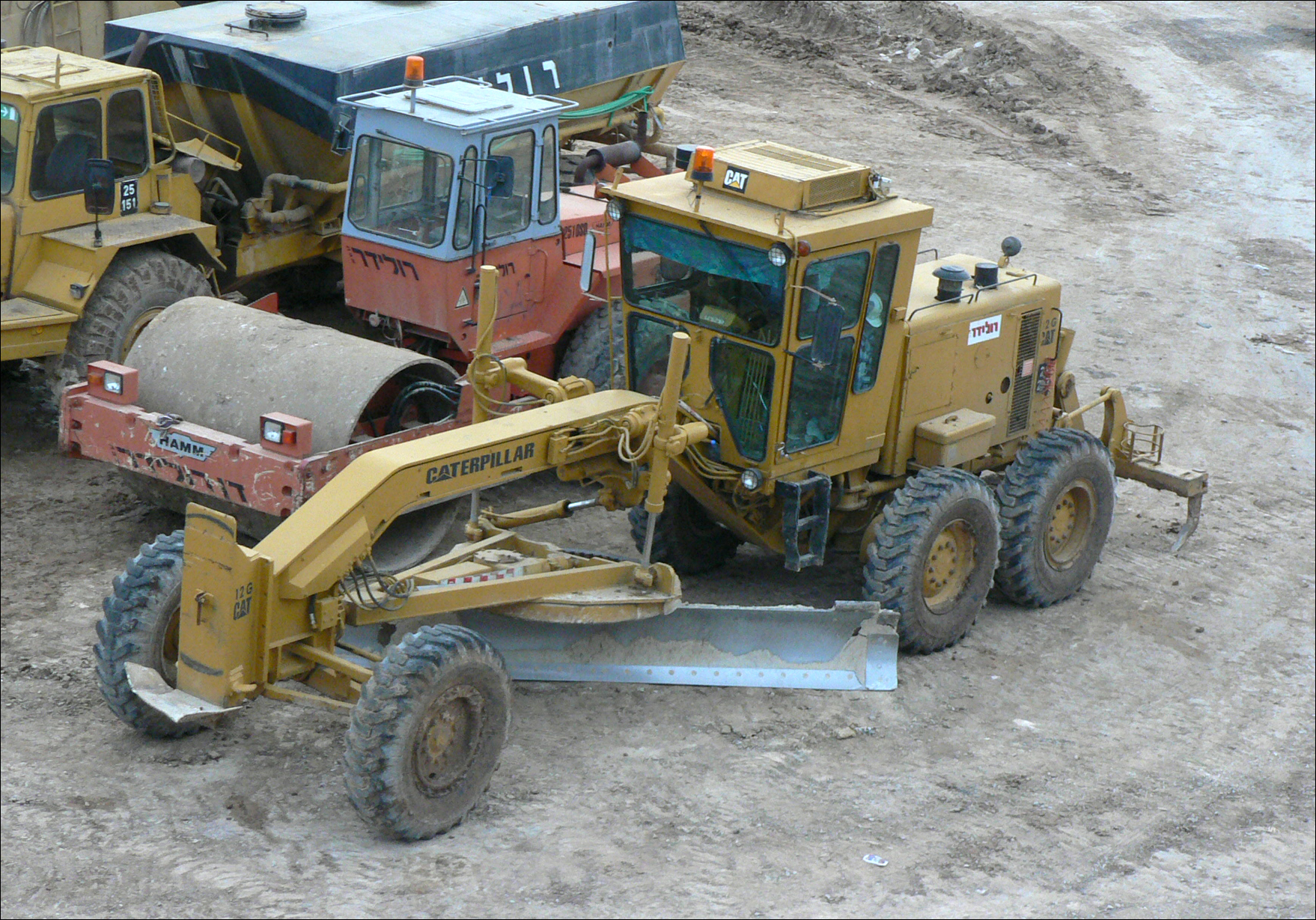 Grader CAT 12G - a type of Engineering vehicle